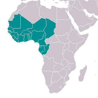 Map of Africa, inclusive Western region. See: Maps of Africa. Mod of Image:BlankMap-Africa.png. See also Image:Africa-countries-western.png